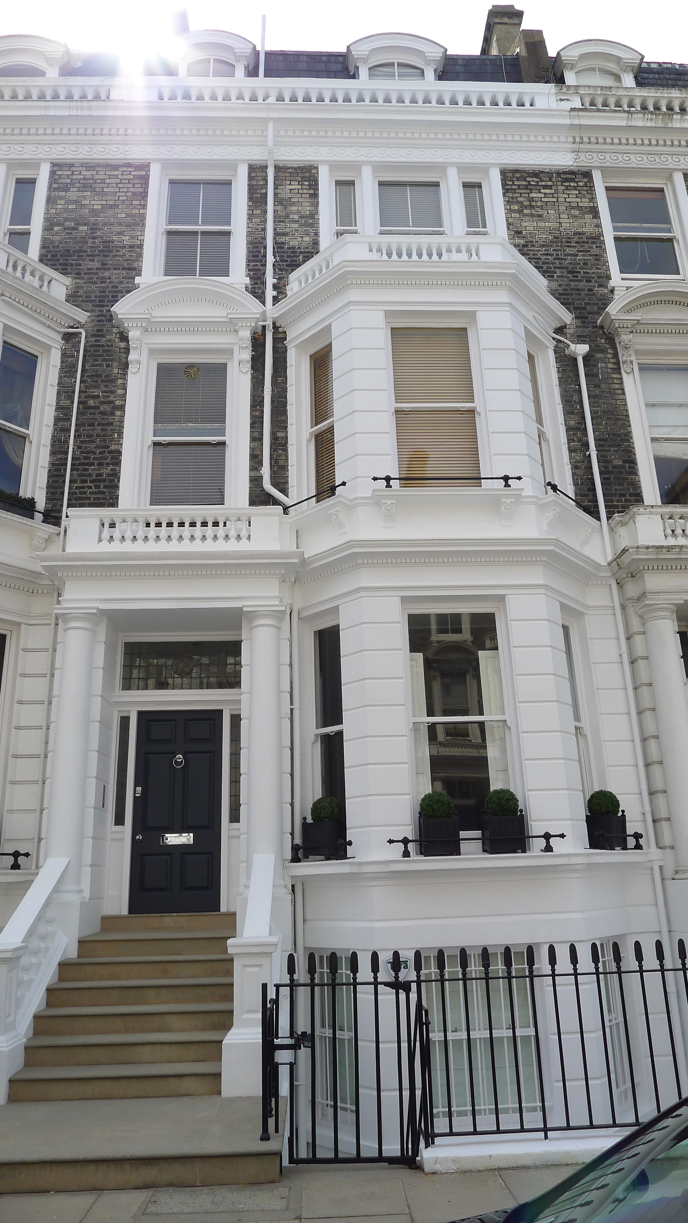 Freddie Mercury house, London, 12 Stafford Terrace